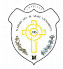 Emblem of Congregation of Sisters Adorers Handmaids of the Blessed Sacrament and of Charity, founded in 1856 at Madrid , Spain, by Saint Maria Micaela, from a printed sheet published ca. 1910